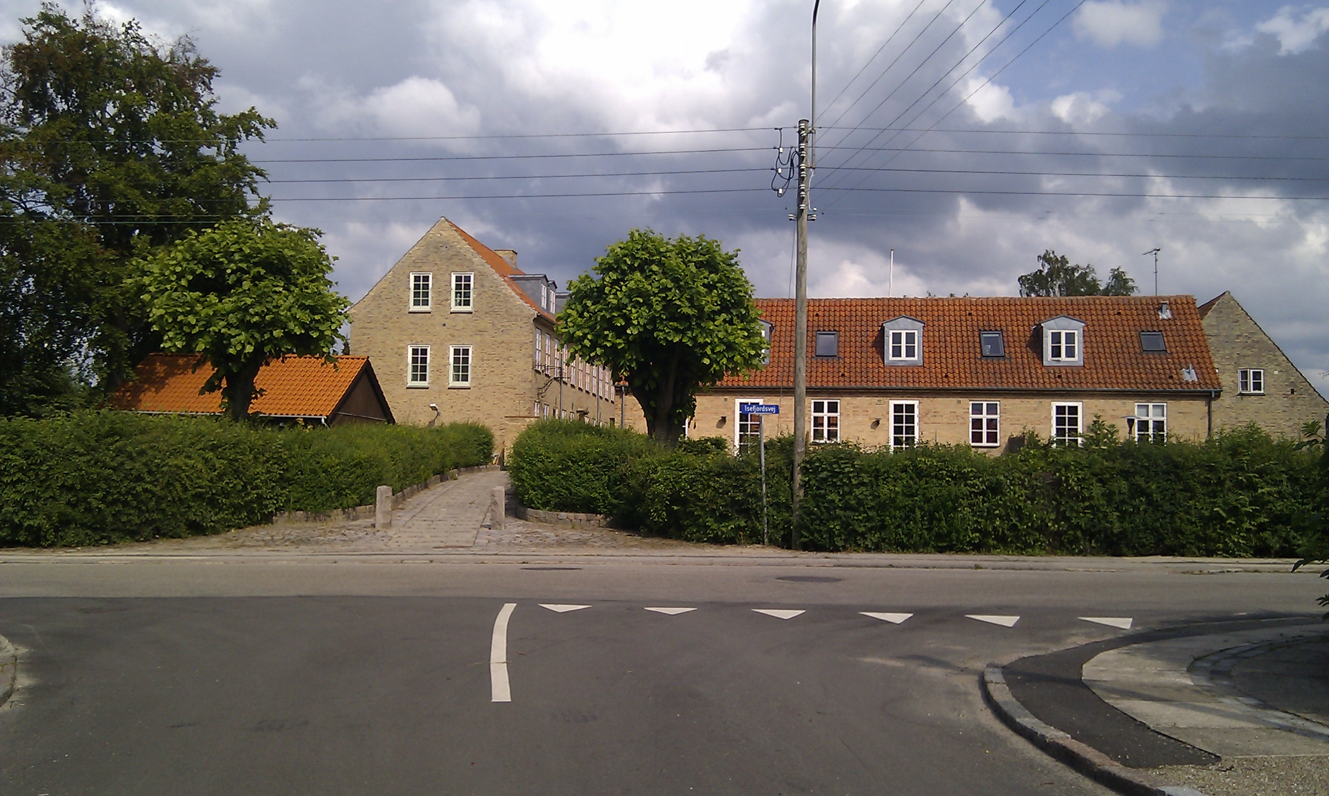 Bygmesterskolen, later named Glarmesterskolen in Holbæk, Denmark